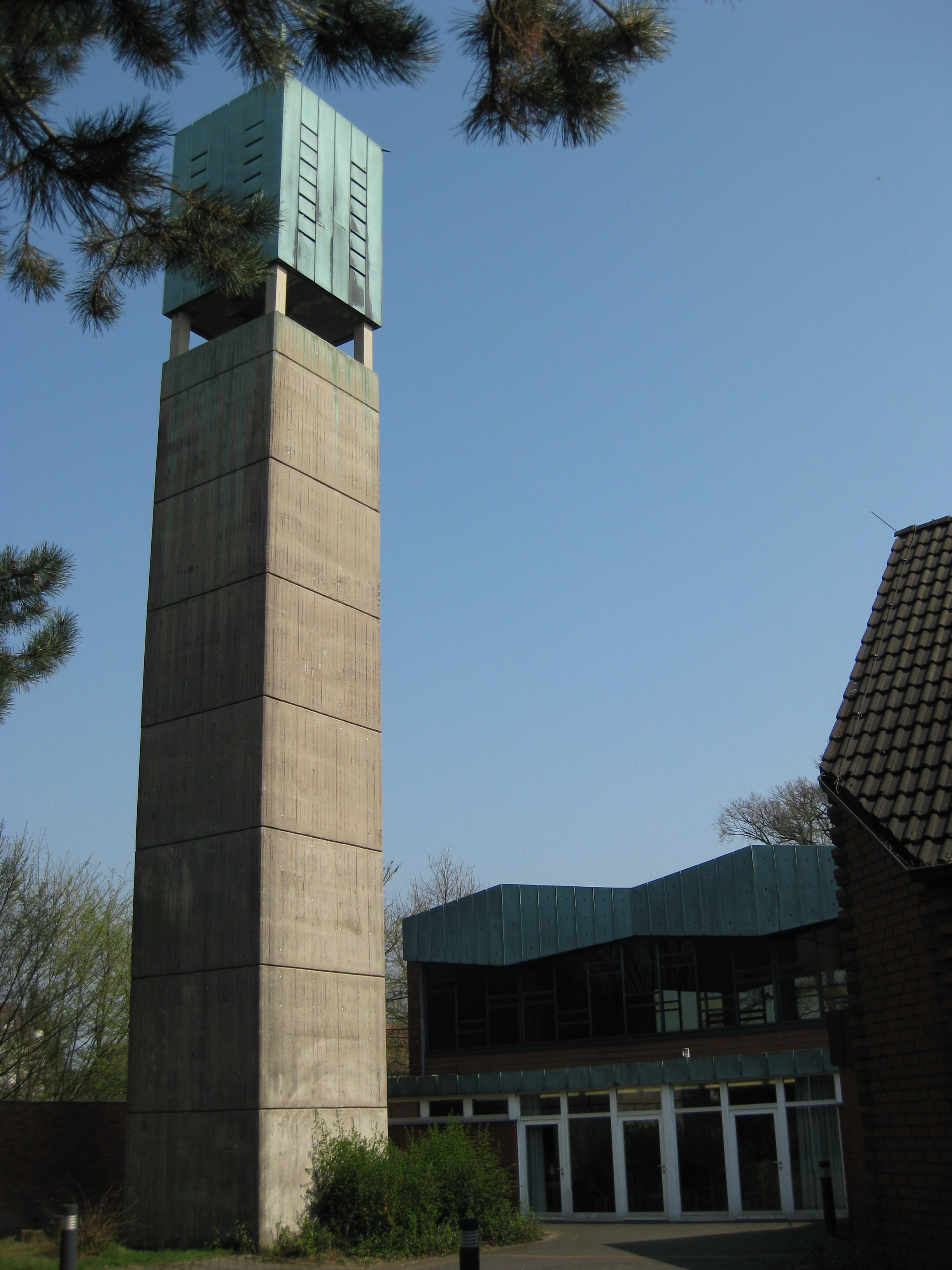 lutheran parish church Andreaskirche in Bielefeld-Dornberg - Babenhausen